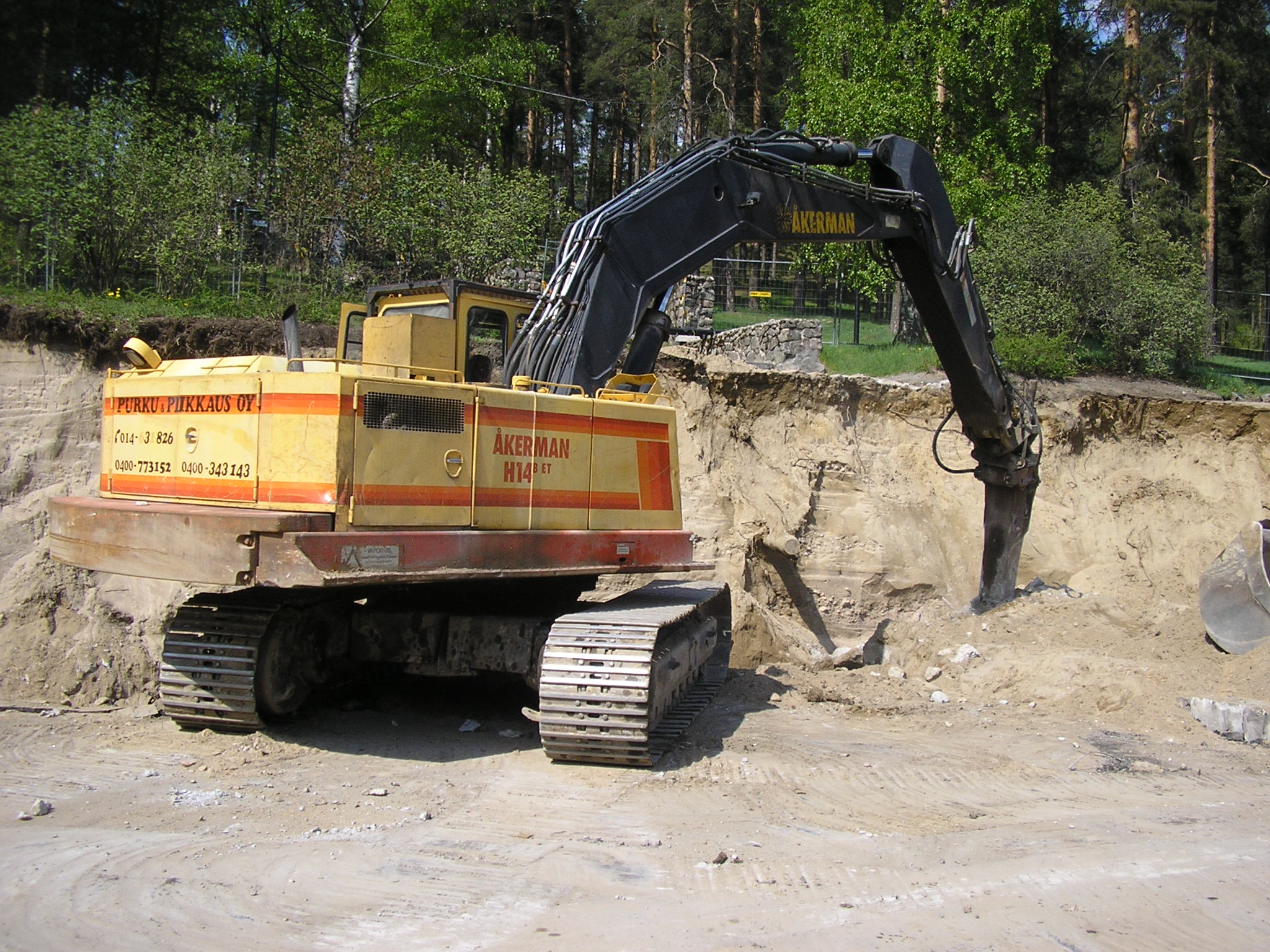 Åkerman excavator with a breaker in Jyväskylä, Finland